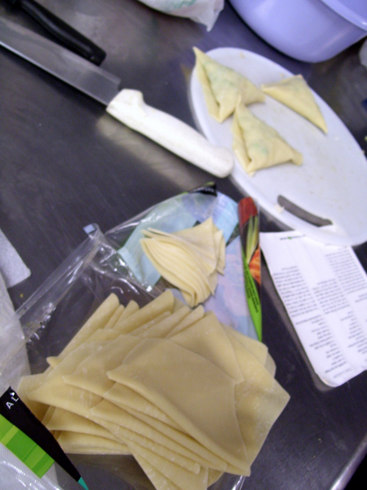 Somali sambusas (samosas) being prepared.